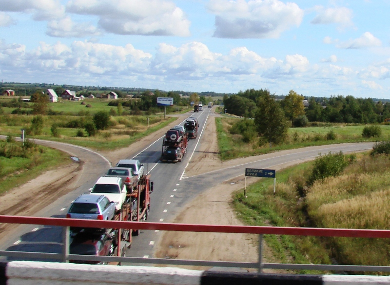 Road M9 near Velikiye Luki, Russia